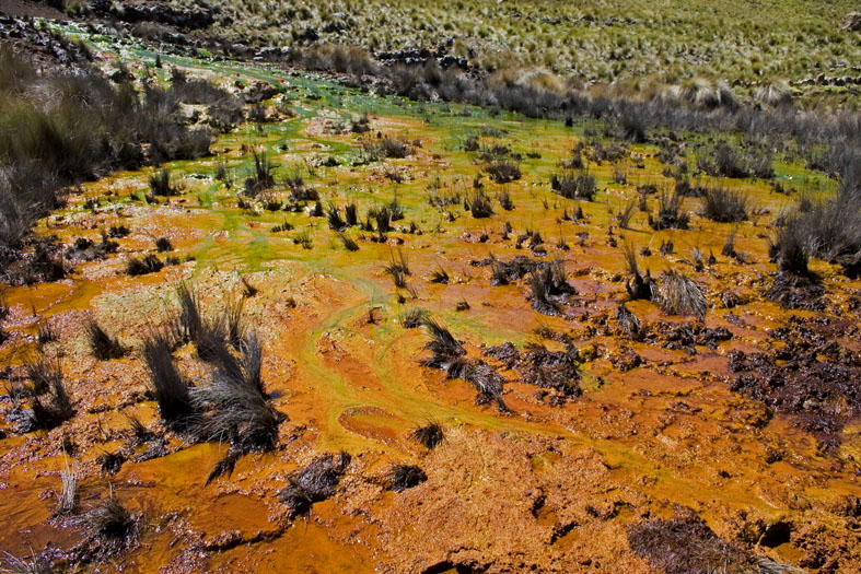 Area "revegetada" Yanacocha in Maqui Maqui after 10 years of gold mining.